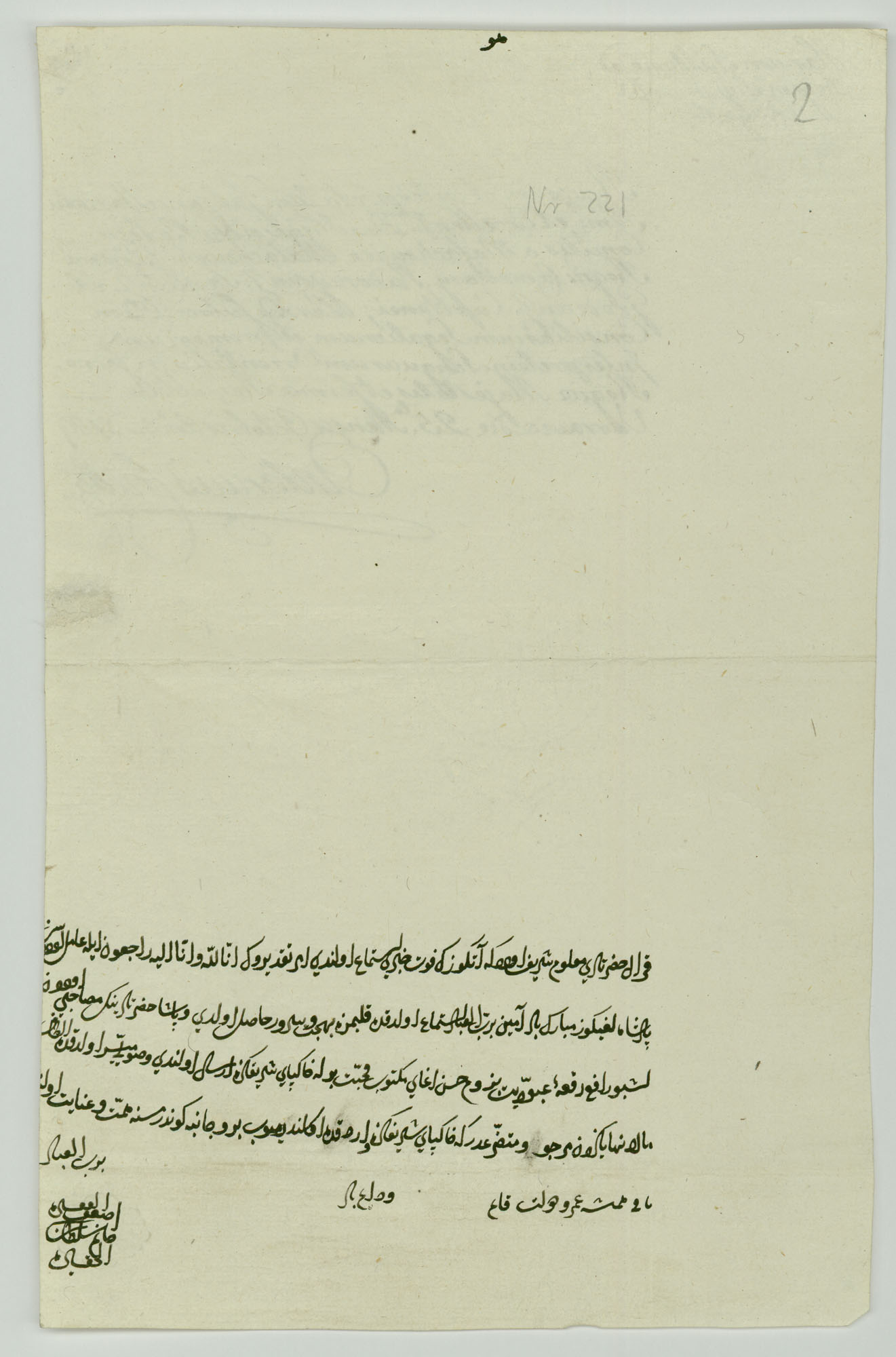 A letter that has written by Mihrimah Sultan to Sigismund II AugustusTürkçe: Mihrimah Sultan tarafından II. Zygmunt August'a yazılan mektup